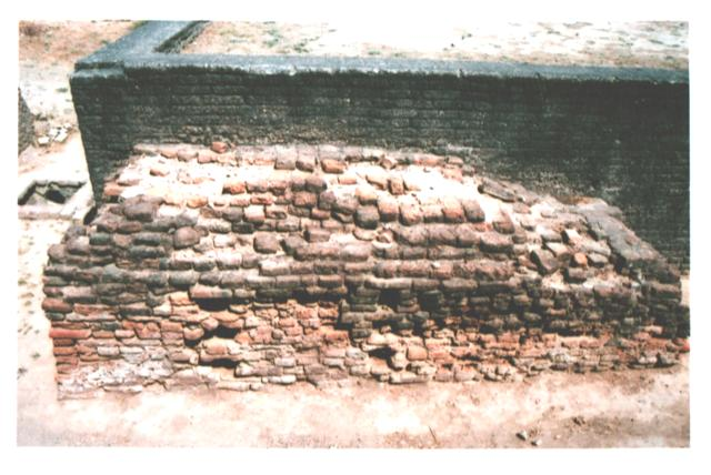 bricks in drainage in Lothal (India)